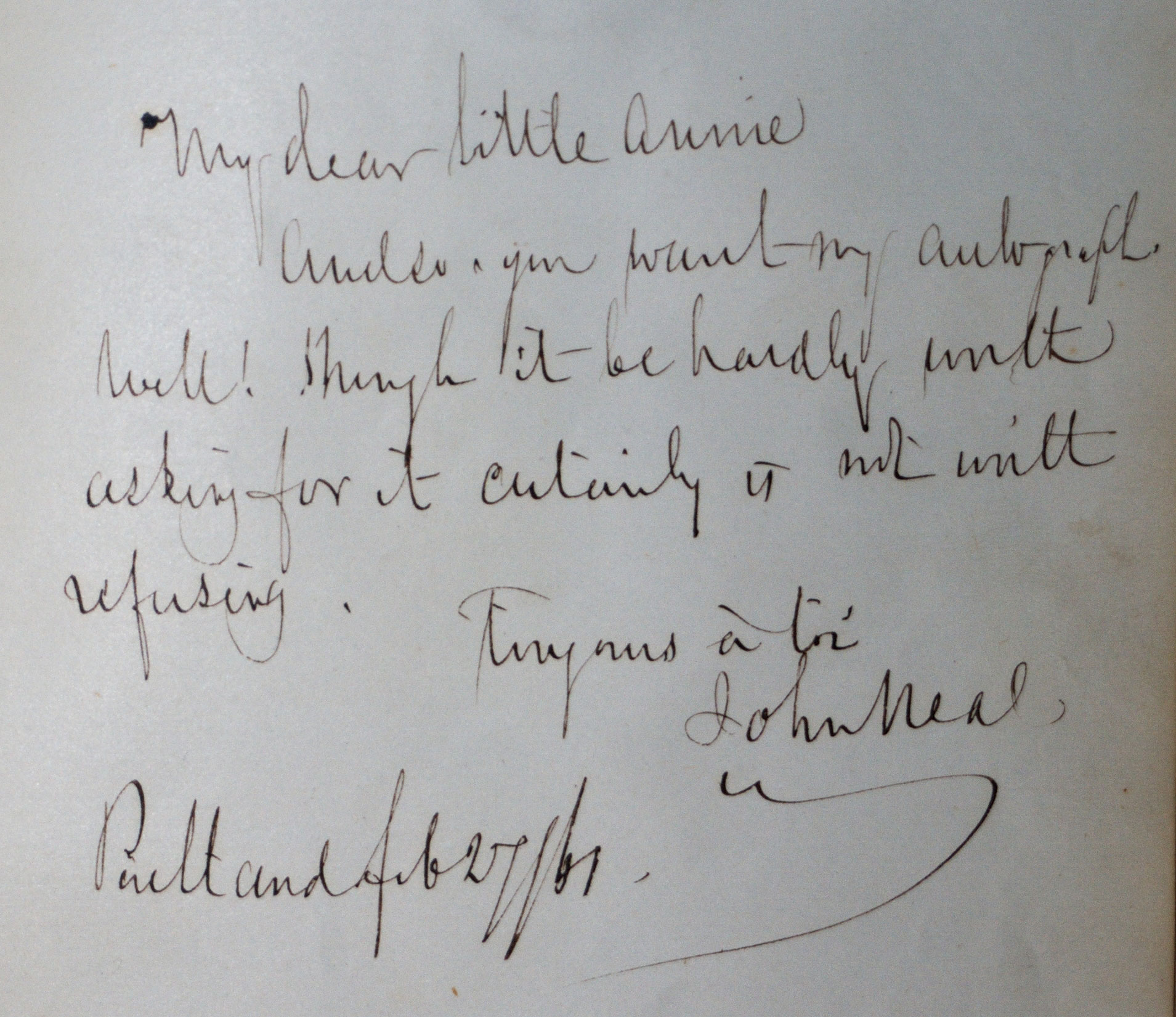 Handwritten note by John Neal in an autograph book belonging to Annie Shepley, daughter of Union General George F. Shepley. "And so you want my autograph Well! Though it be hardly worth asking for it certainly is not worth refusing. Toujours a` toi John Neal Portland Feb 2, 1861"